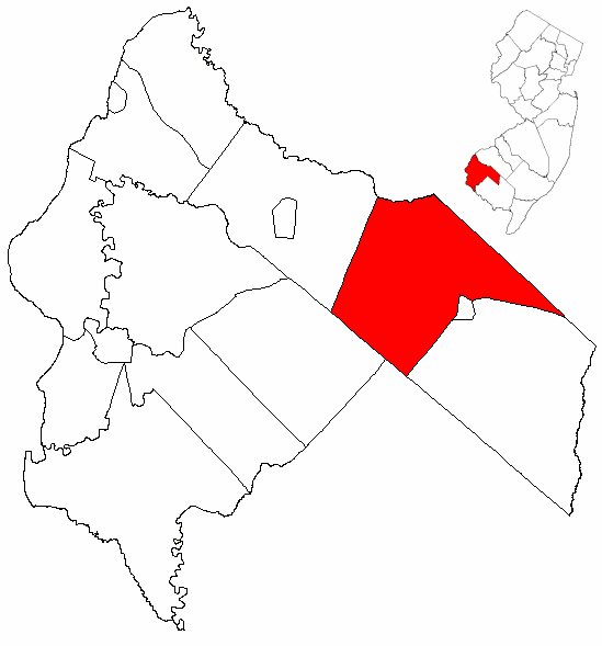 Map of Salem County highlighting Upper Pittsgrove Township